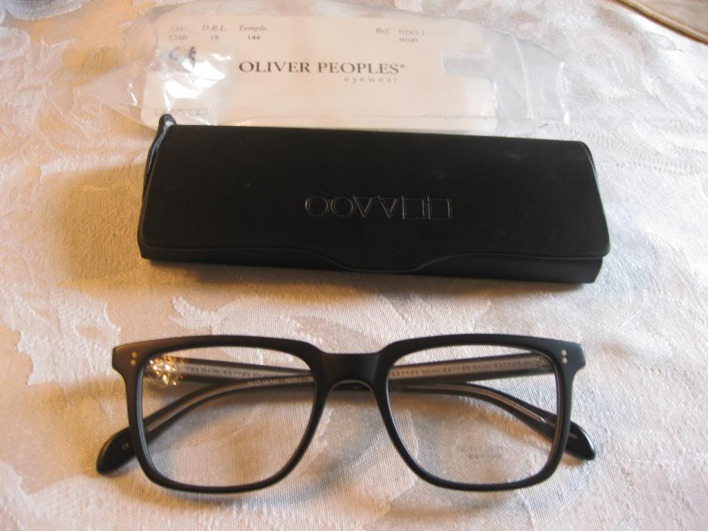 A pair of Oliver Peoples glasses in collaboration with Nom De Guerre. Used to illustrate a specimen of Oliver Peoples eyewear.